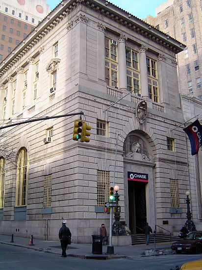 Brooklyn Trust Company building, by York and Sawyer, photographed by me . See also File:Brooklyn Trust 177 Montague jeh.JPG.